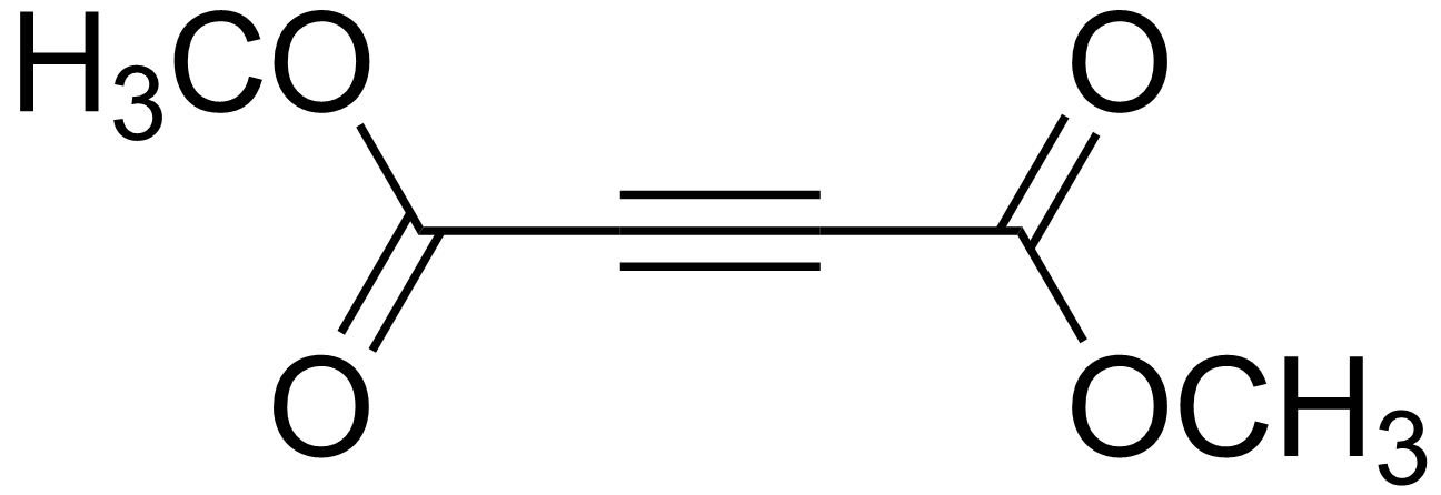 chemical structure of dimethylacetylene dicarboxylate (DMAD)